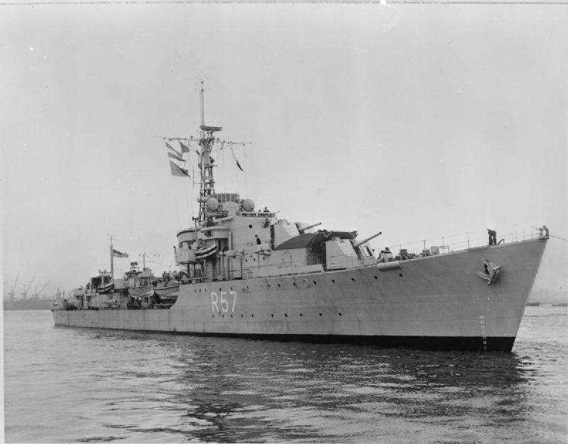 Royal Navy C class destroyer HMS Cossack (R57) under tow